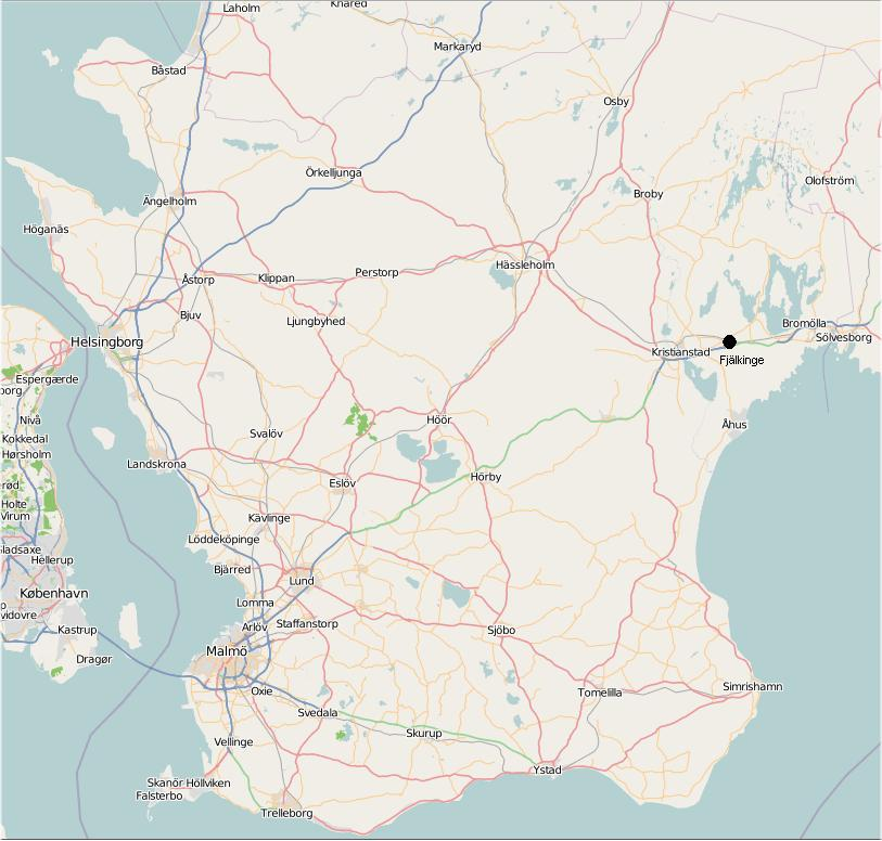 Map over Skåne, pointing out the position of Fjälkinge